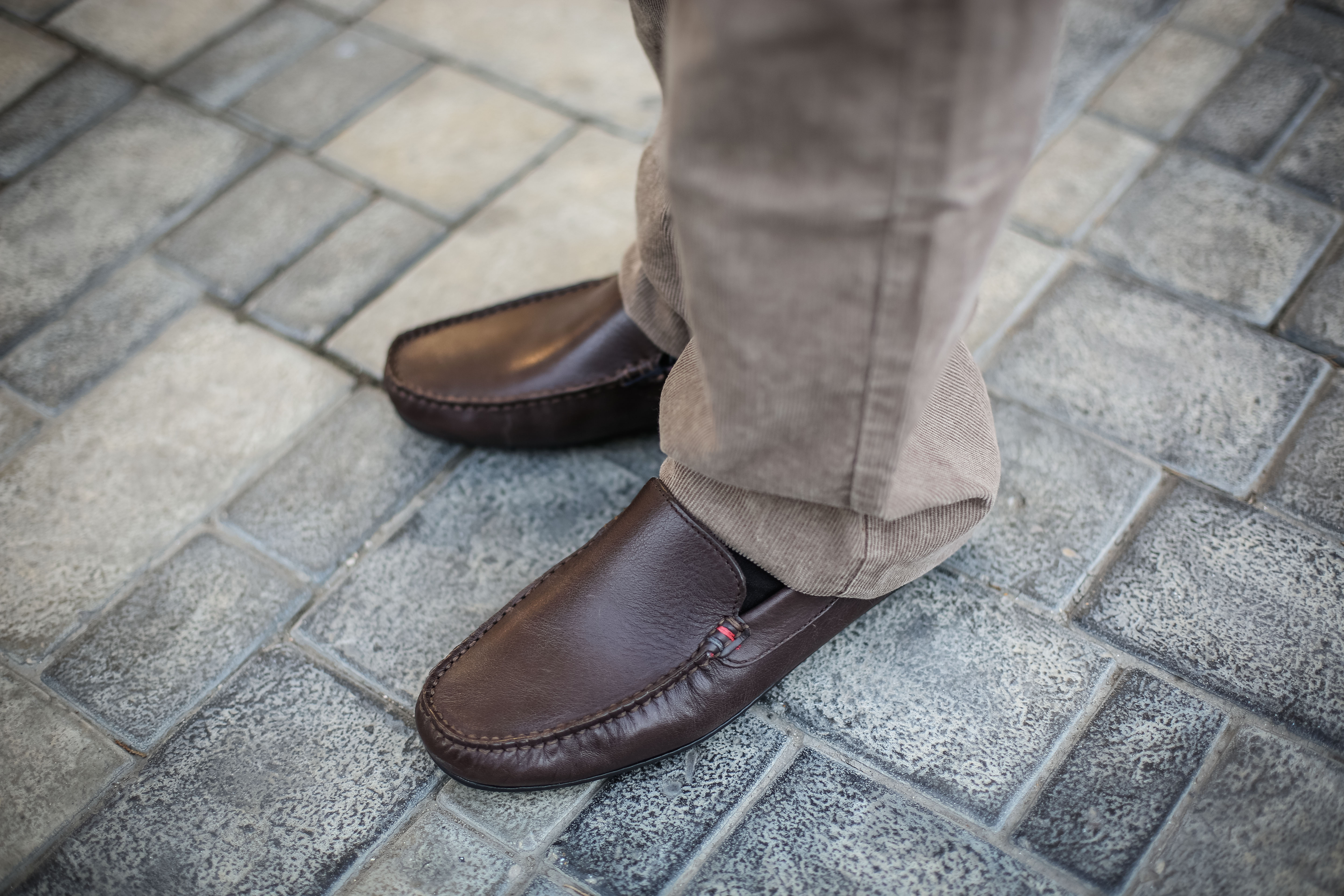 Tommy Hilfiger Azerbaijan